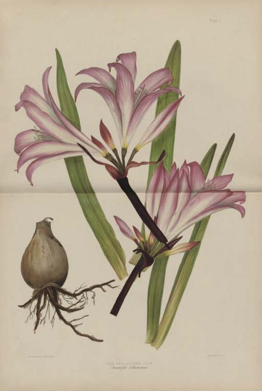 PENFOLD, Jane Wallas (fl. 1820-1850, artist) and William Lewes Pugh GARNONS (1791-1863). Madeira Flowers, Fruits, and Ferns. London: Reeve, Brothers, 1845. 4° (305 x 240mm). Hand-coloured lithographed additional title and 20 hand-coloured lithographed plates by R. E. B. after Penfold, 3 double-page, subscribers leaf with woodcut border (occasional light spotting or marking, light marginal browning, one plate with short marginal tear, another trimmed touching number). Original green cloth gilt, boards with borders and foliate cornerpieces in blind, upper board with central gilt urn design repeated in blind on the lower board, 20th-century morocco spine lettered in gilt, g. e. (a little rubbed, faded and marked, skilfully rebacked and recornered, endleaves replaced).